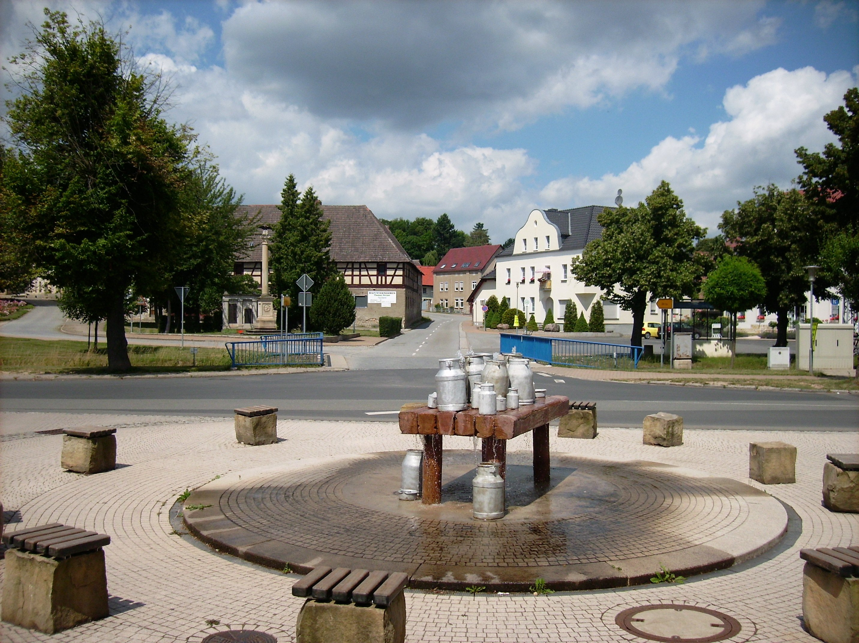 Milk-bench fountain in Kayna (Zeitz, district of Burgenlandkreis, Saxony-Anhalt)